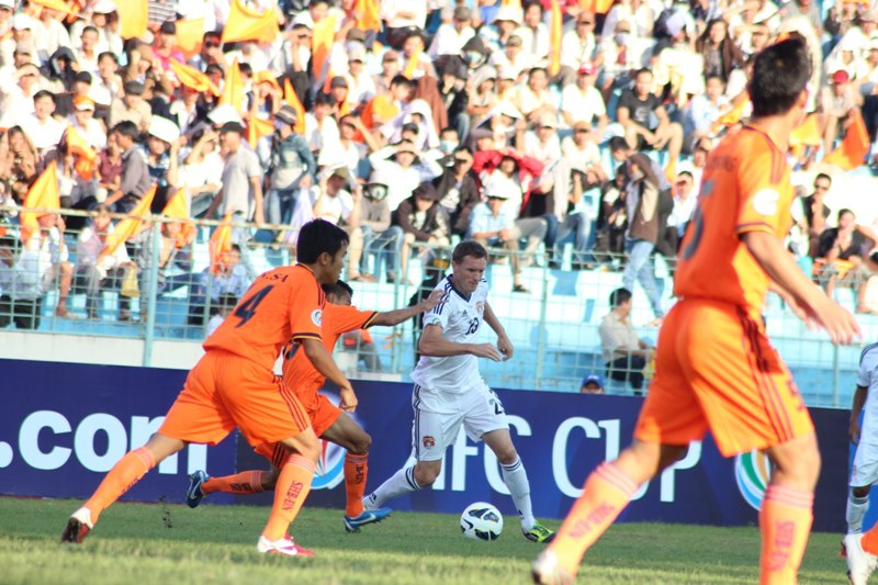 AFC Game